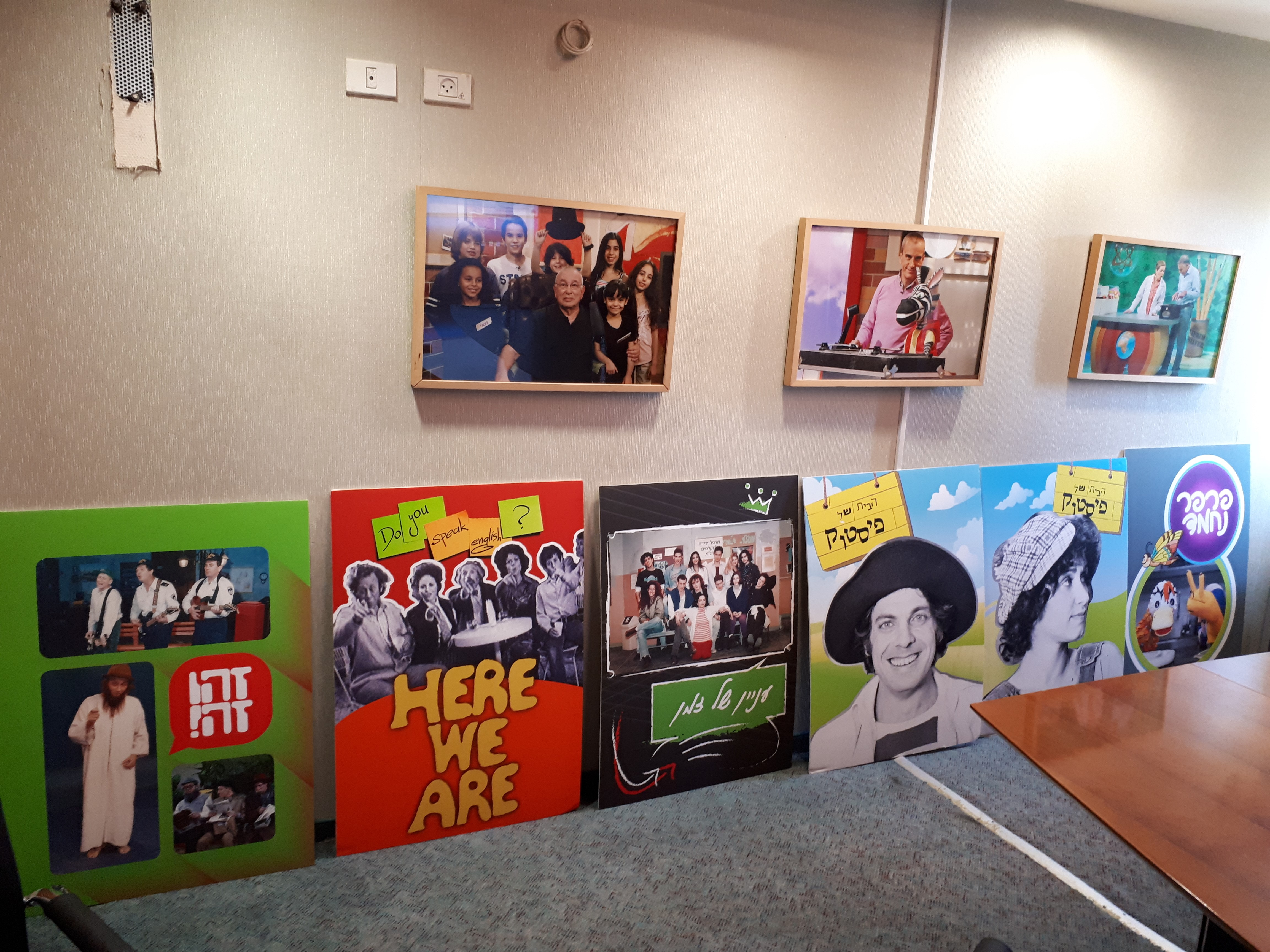 Inside the IETV building. Tel aviv, April 2018